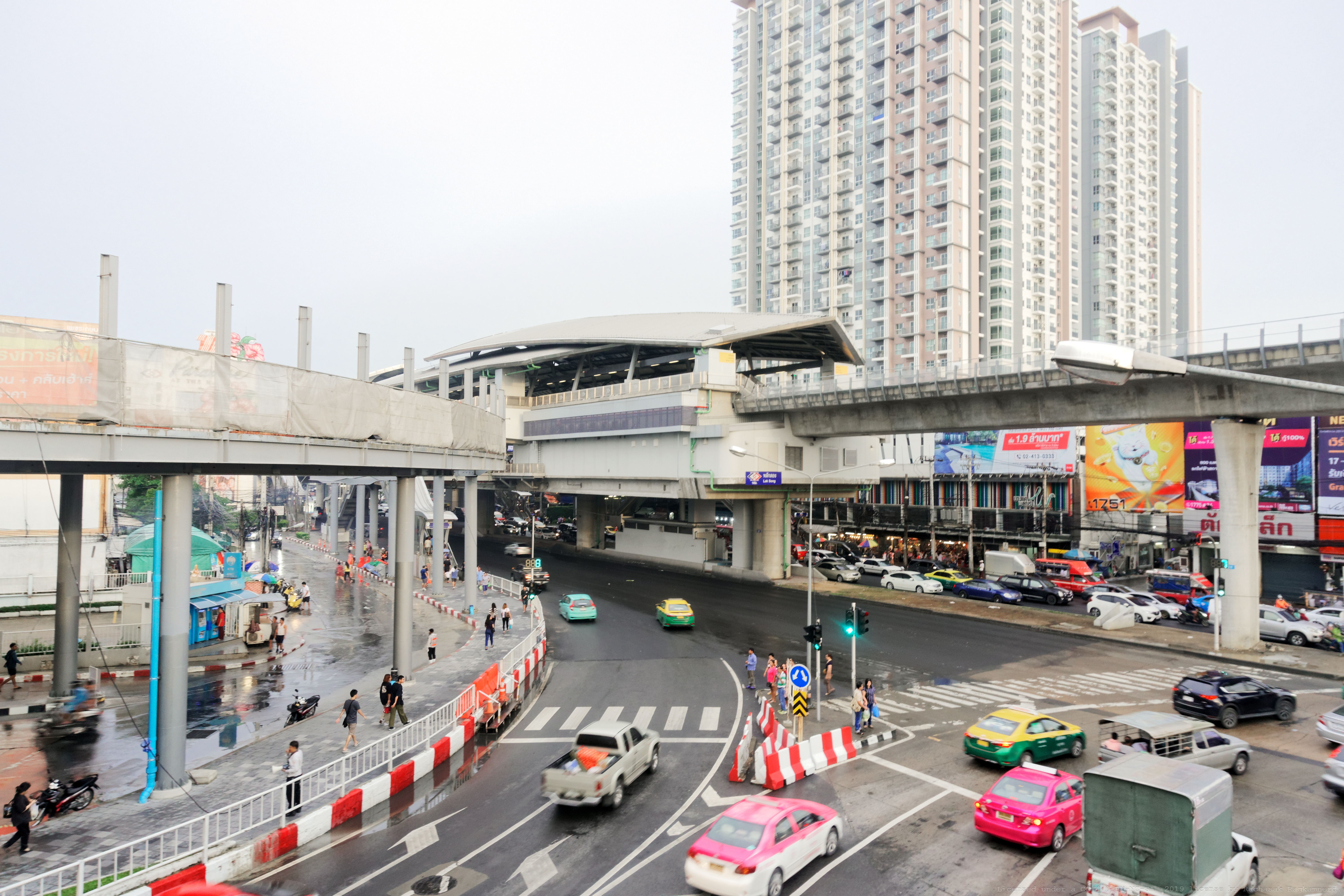 MRT Lak Song station: Station. View from above Phetkasem - Kanchanaphisek Road intersection (Overall view with the Skywalk)